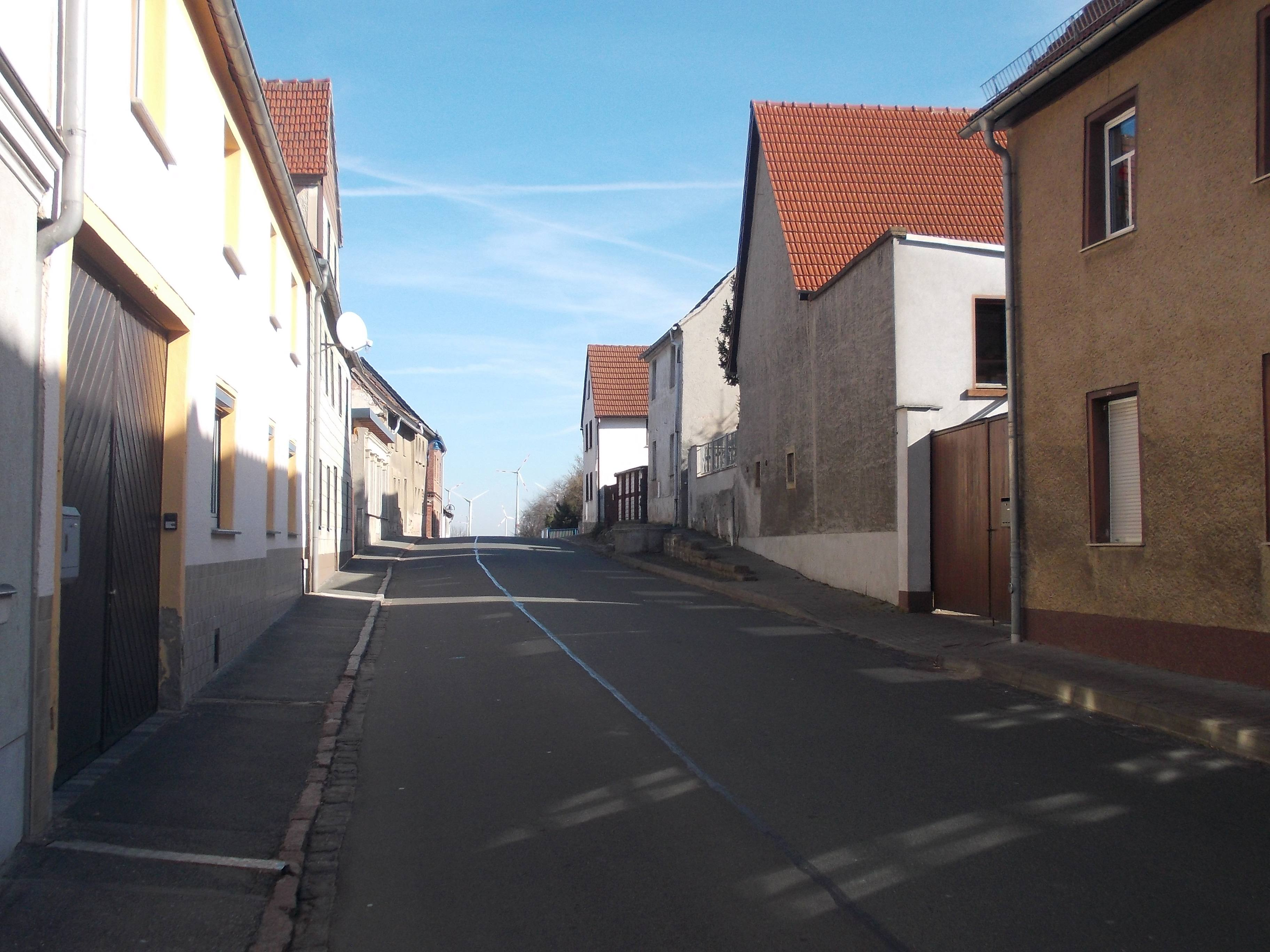 Bergstrasse in Stößen )district: Burgenlandkreis, Saxony-Anhalt)